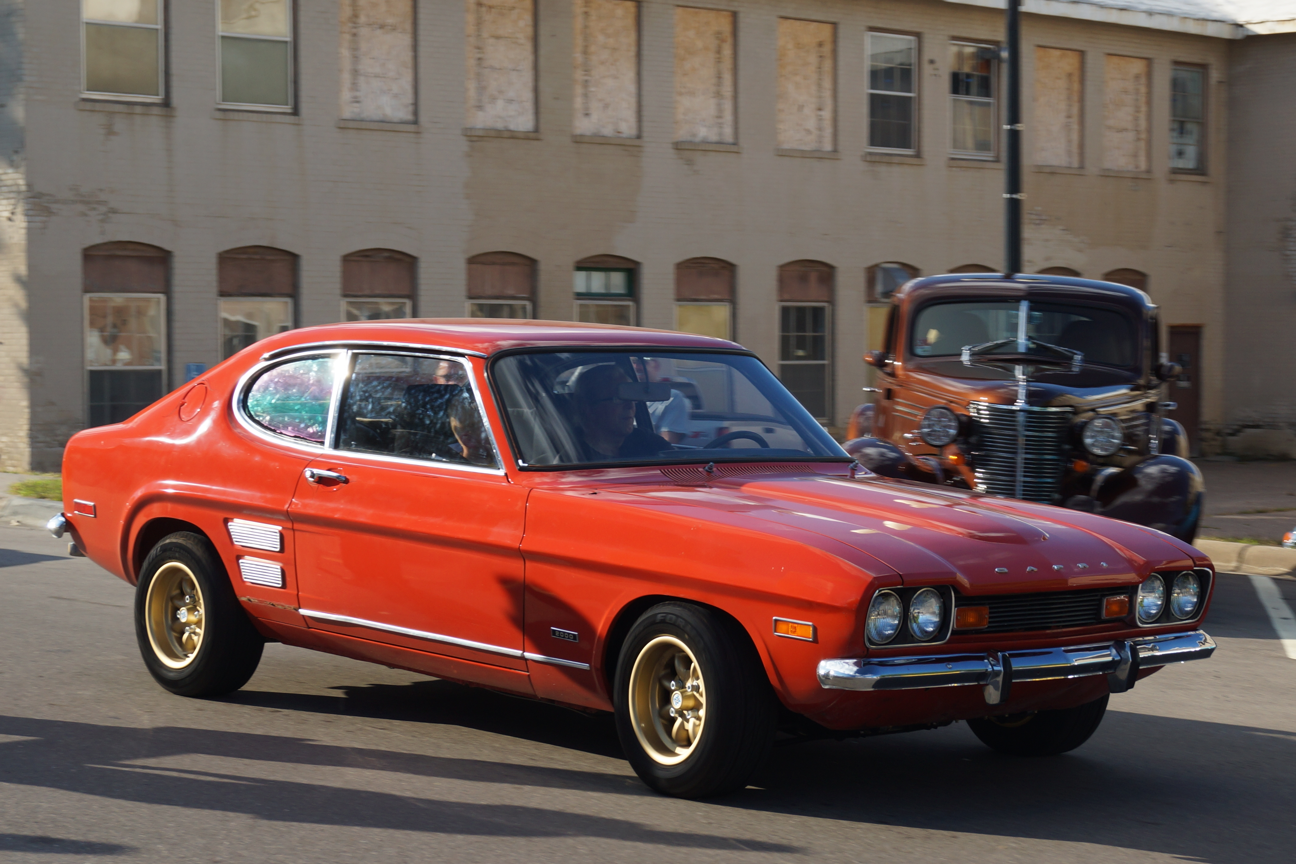 HISTORIC DOWNTOWN HASTINGS CRUISE-IN & CLASSIC CAR SHOW Hastings, Minnesota Late September 2016 Click here for more car pictures at my Flickr site.